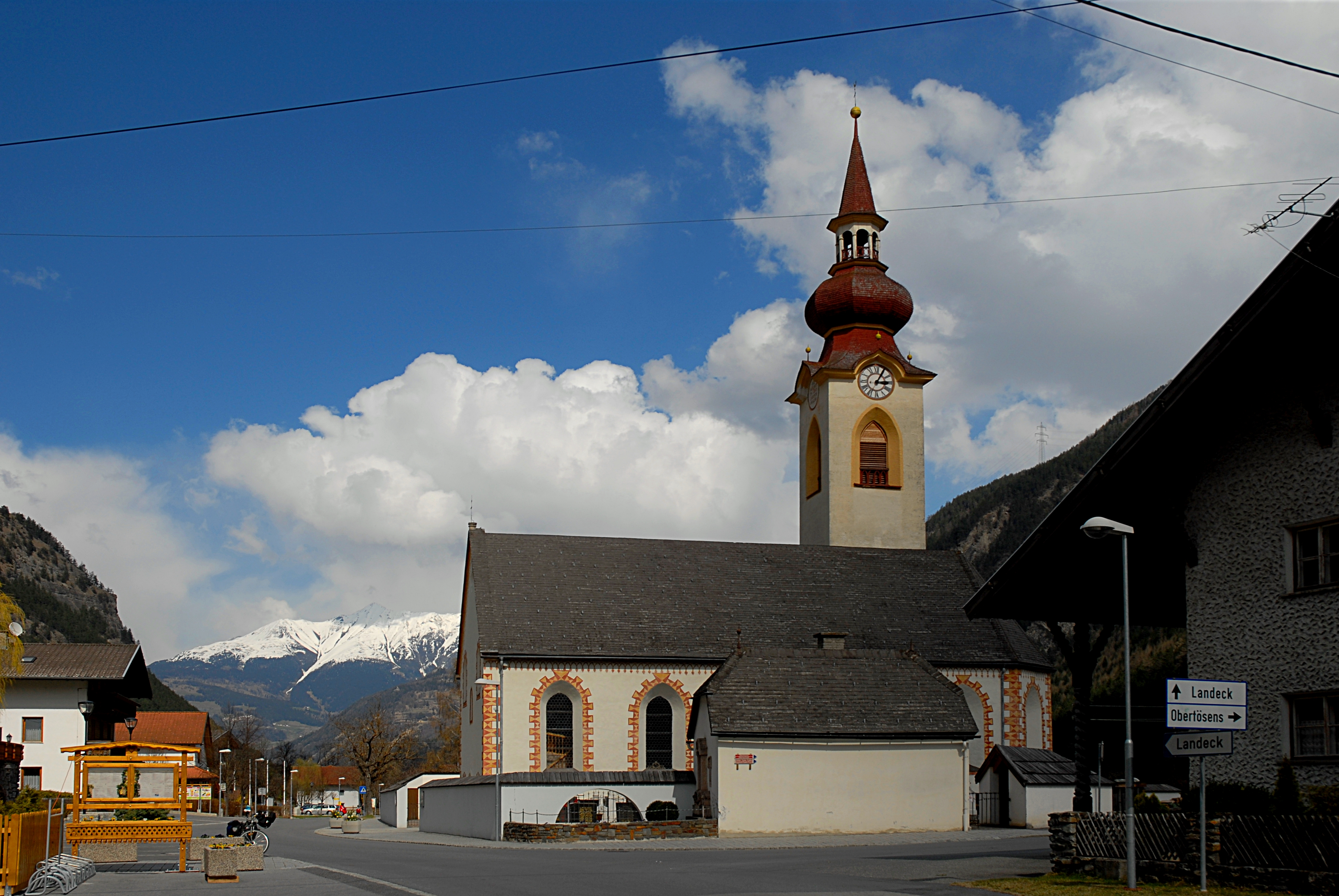 In the center of Tösens, Tyrol, Austria